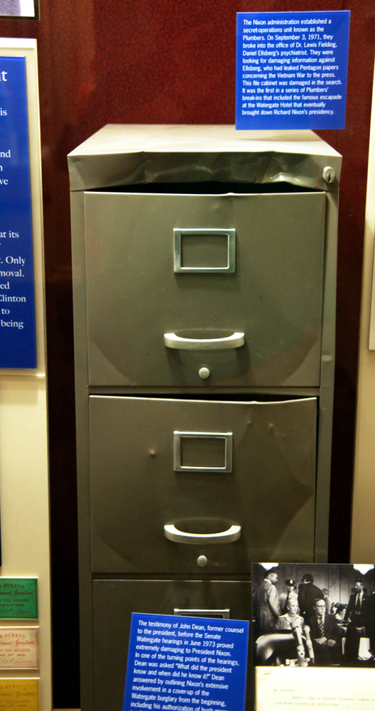 Photo of the filing cabinet of Daniel Ellsberg's psychiatrist on display at the Smithsonian Museum of Natural History.